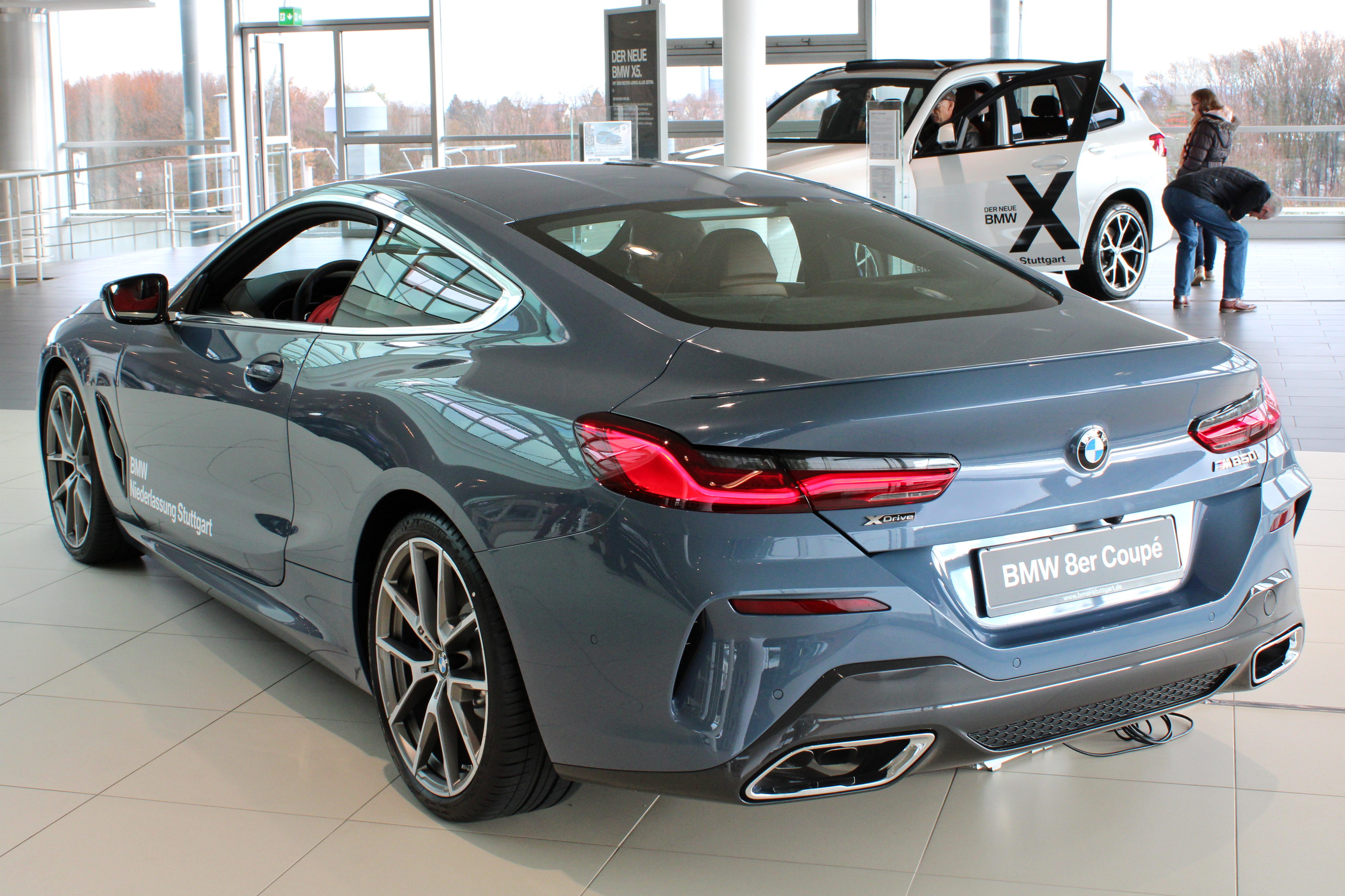 BMW M850i Coupe in Stuttgart-Vaihingen